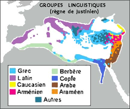 Languages in the Byzantine empire at time of Justinianus